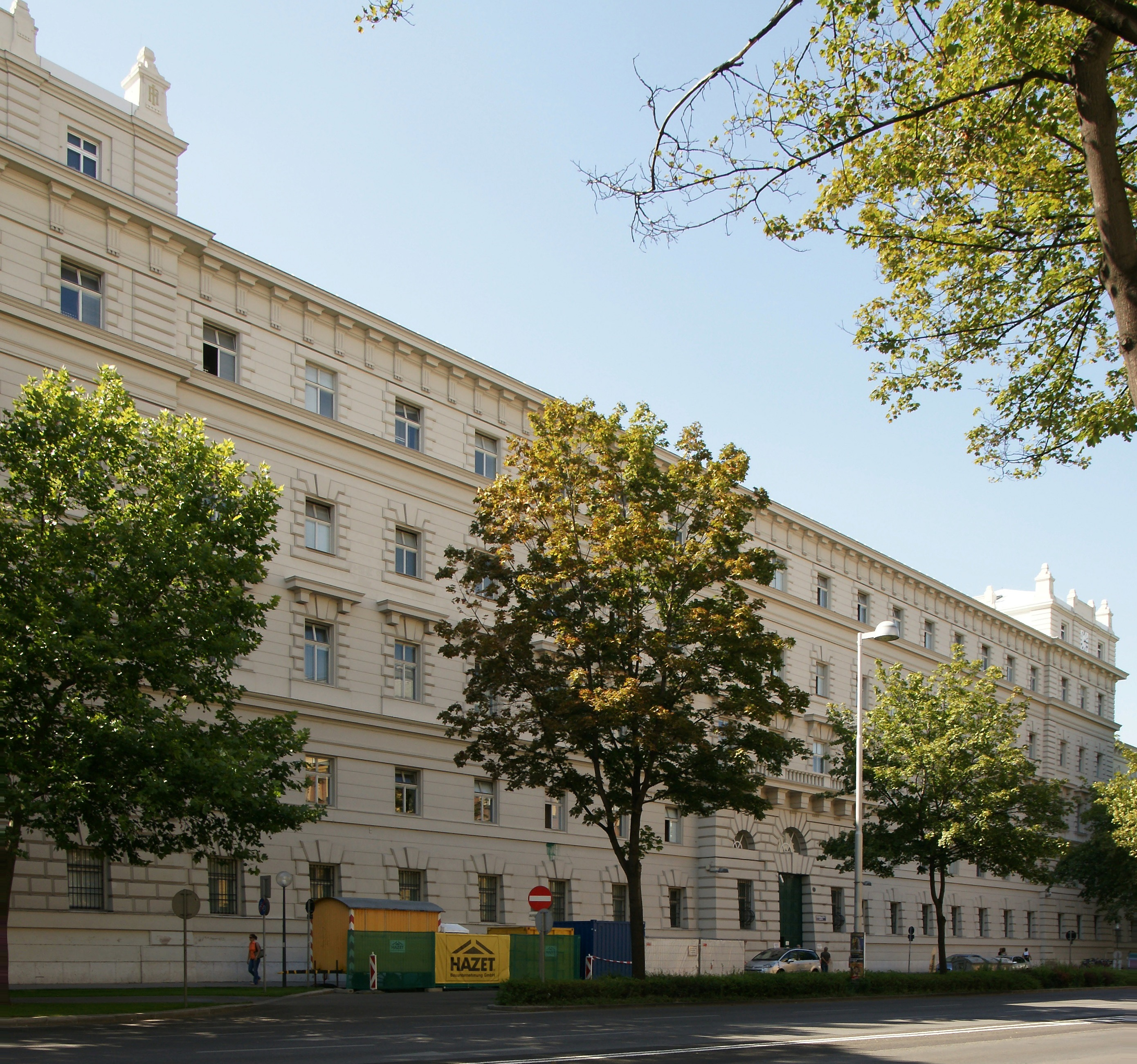 The entrance area of the Josefstadt penitentiary in Vienna.